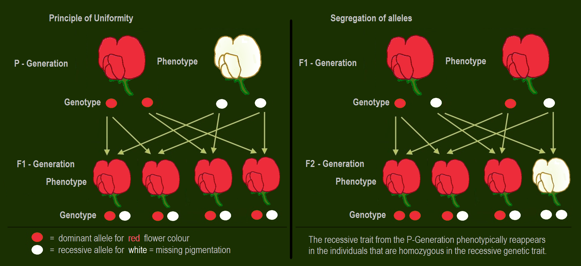 Cross of two different homozygous parents as P-generation: In the F1-generation all plants have the same heterozygous genotype and the dominant flower colour in the phenotype.